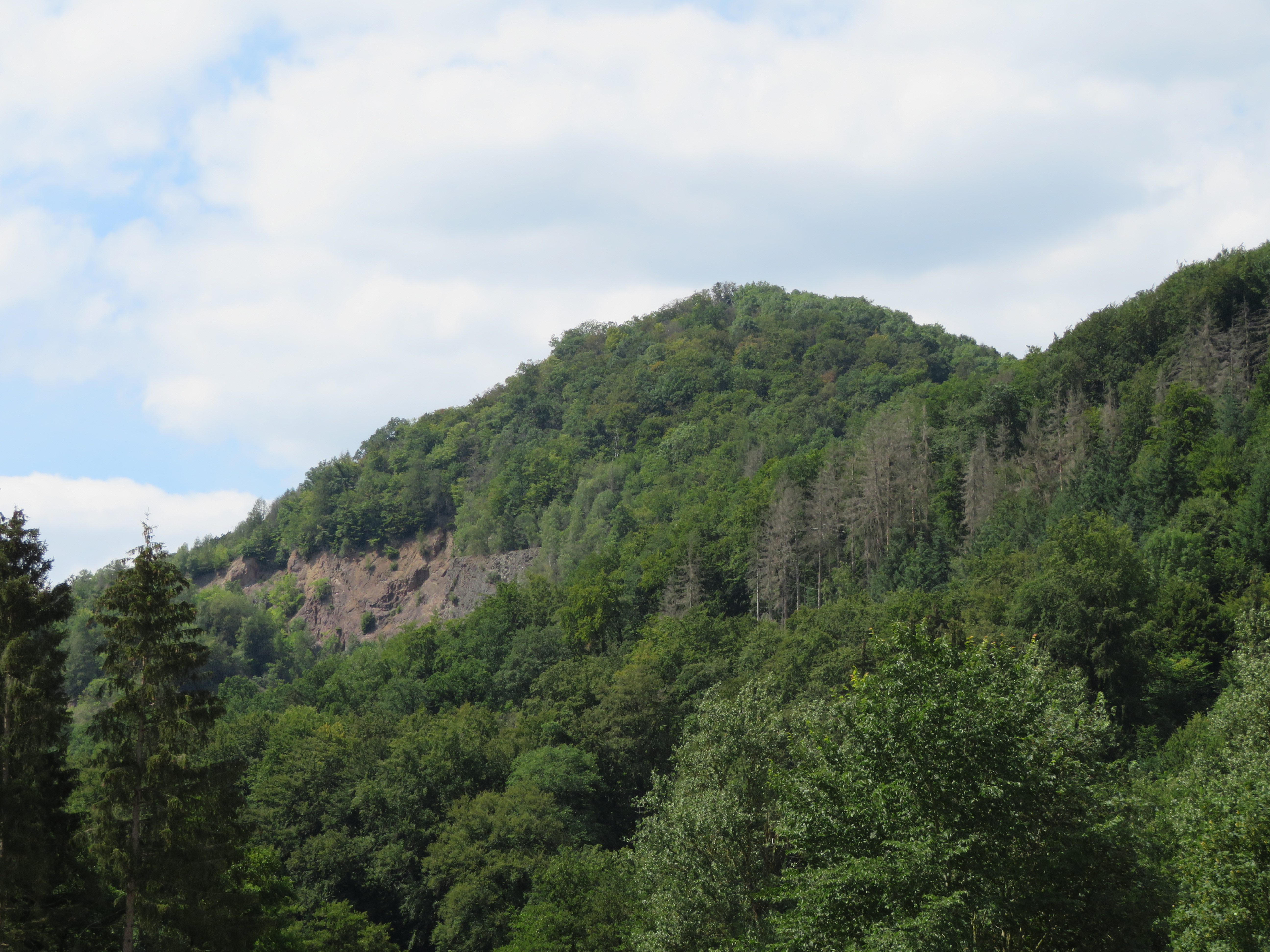 Naturschutzgebiet Padberg​ von Südost.